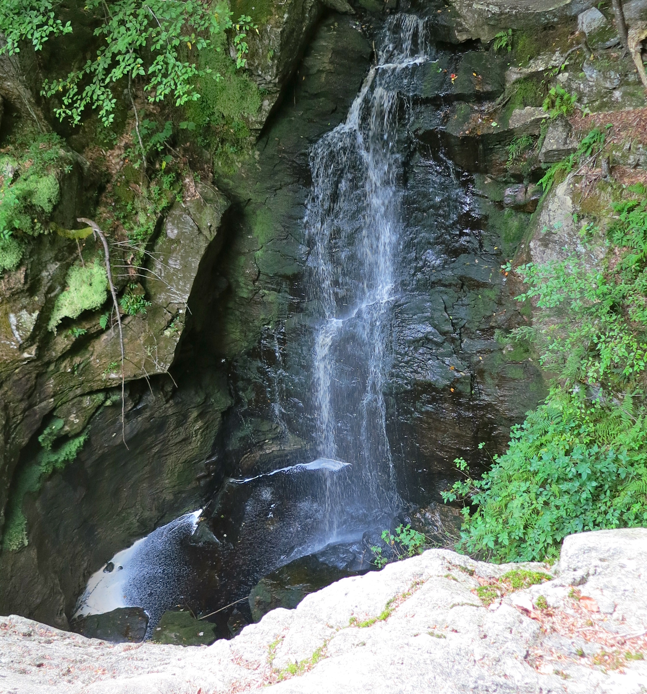 scenic falls in Royalston